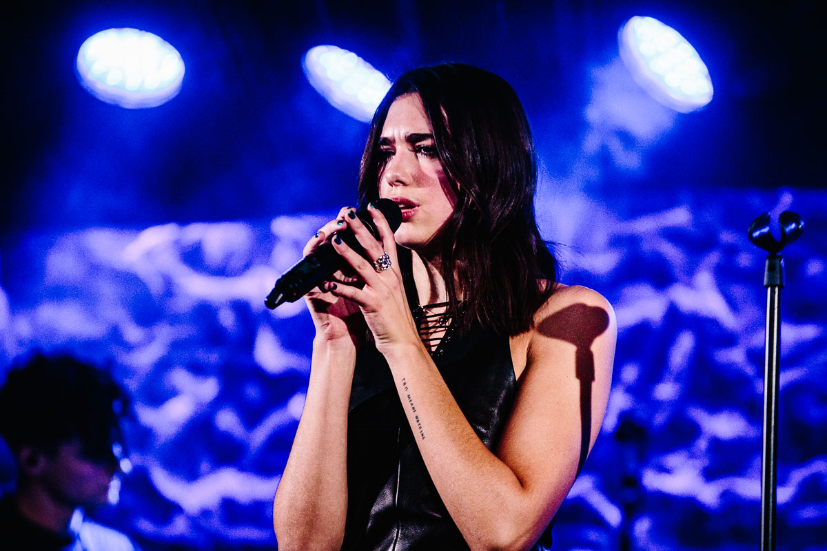 Dua Lipa on 13 November 2016 at the Iridium in New York City for an MTV Setlist taping.